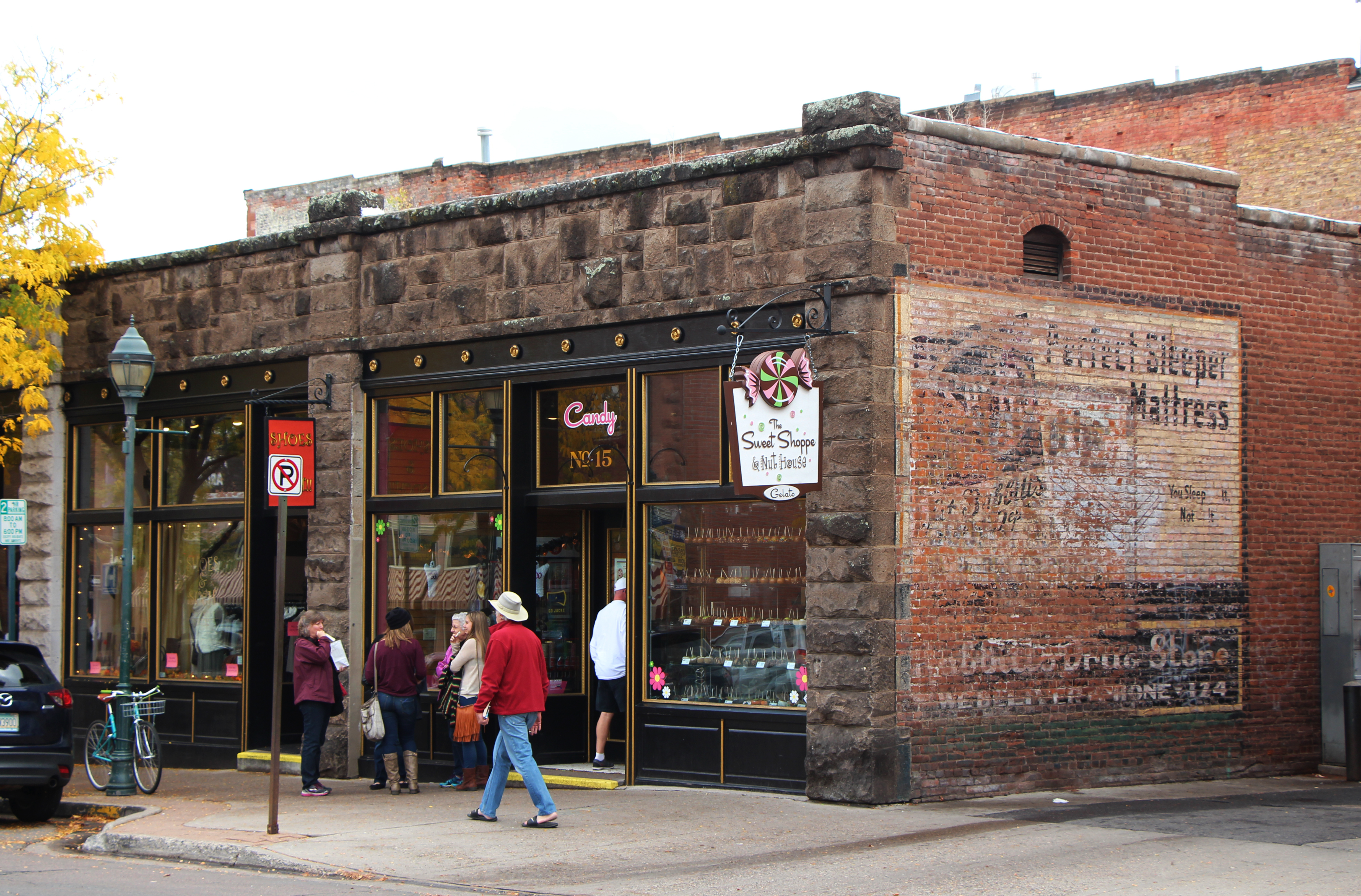 Babbitt Building 1, 15 E Aspen Ave, Flagstaff, AZ